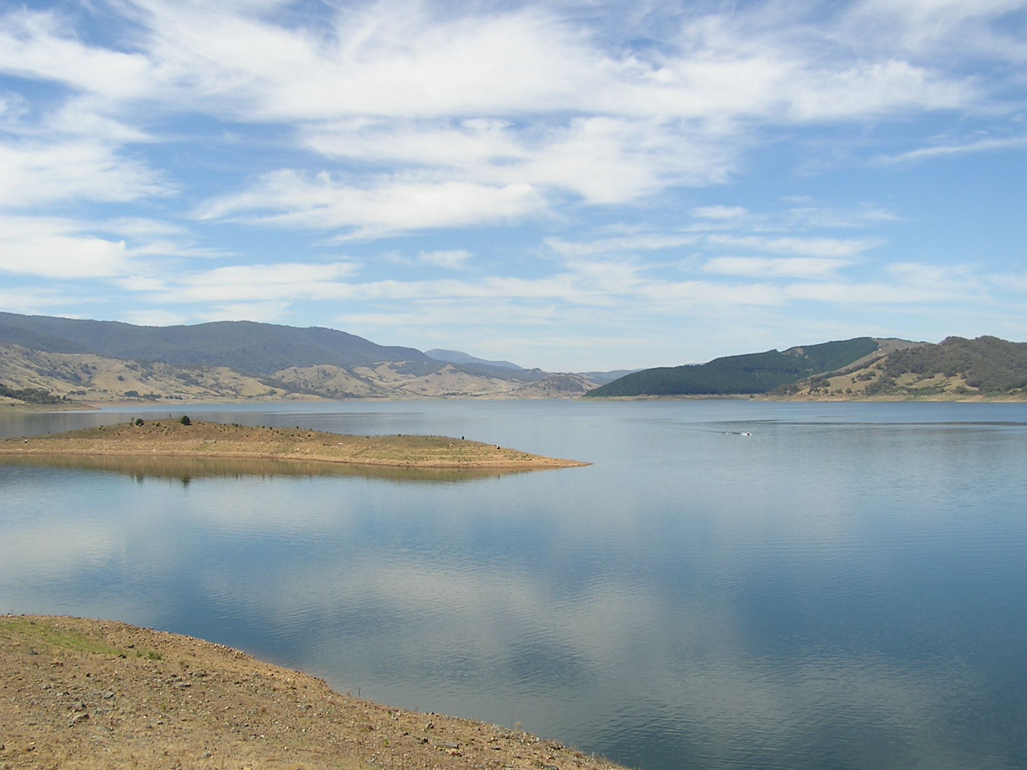 Blowering Dam, New South Wales, Australia which dams the Tumut River